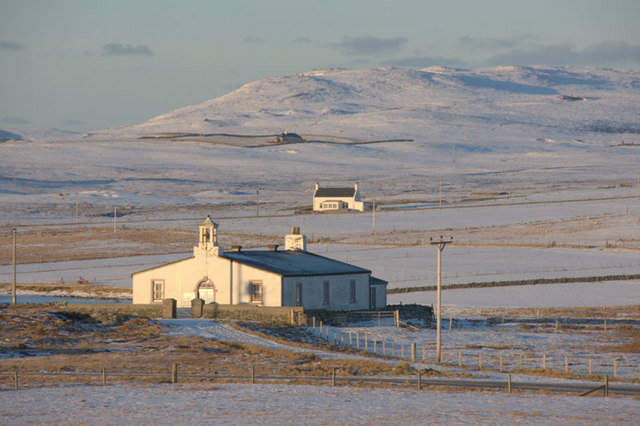 Uyeasound Kirk from the south Looking form Millagord towards the kirk. The house at Viewfurt and the hill of Valla Field are in the background.